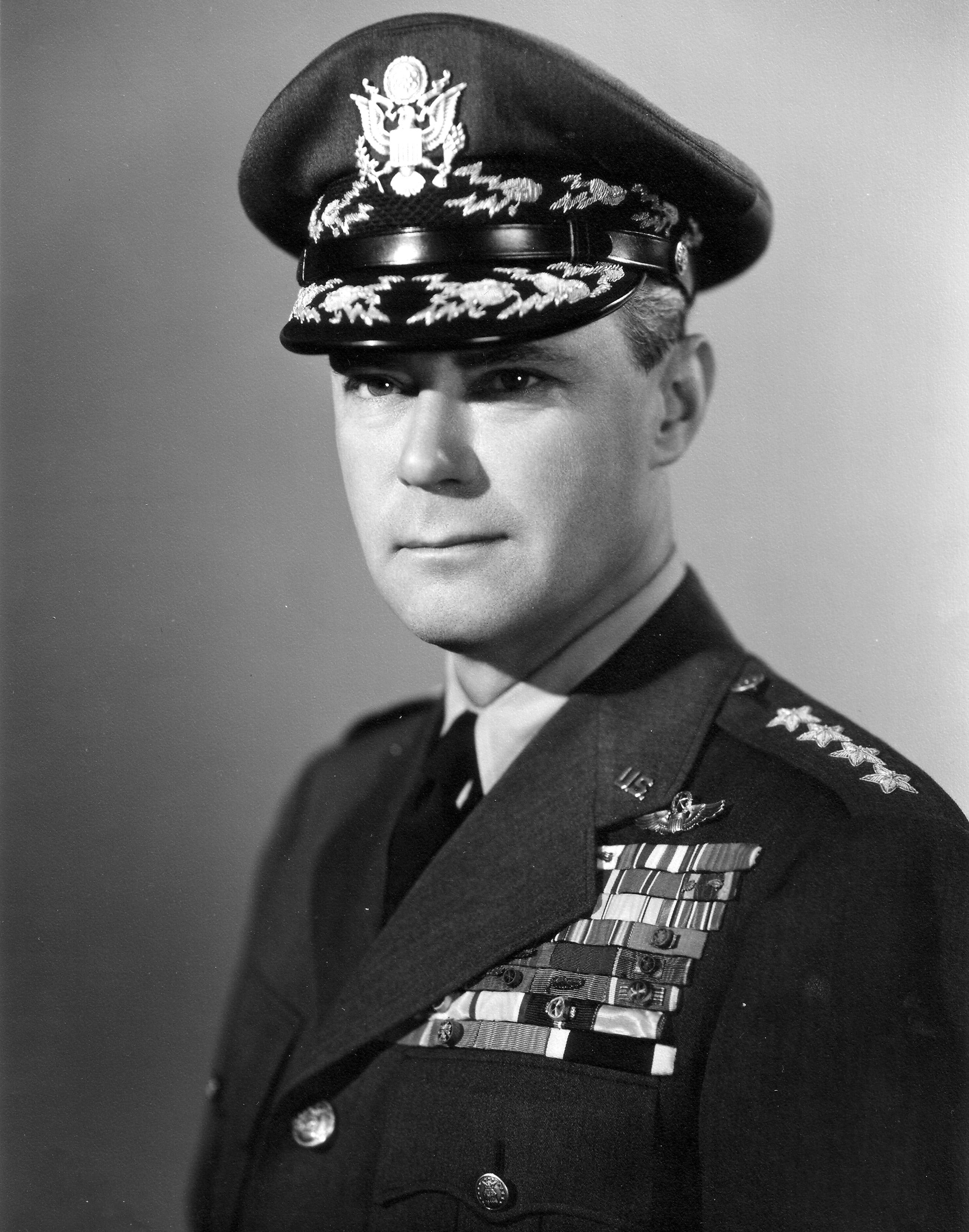 Hoyt Vandenberg, US-General, 2nd Chief of Staff of the Air Force